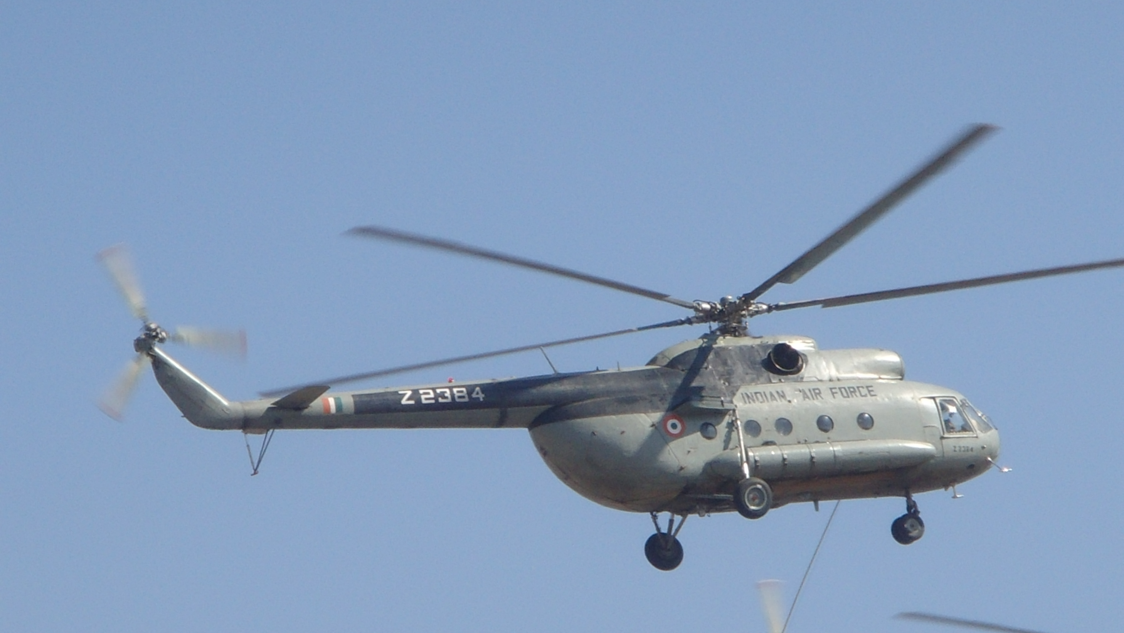 Mi 8/17 during a flag show at Aero India 2011, Yelahanka Air force Base Bangalore.